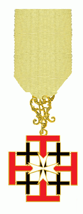 DEUTSCHE KAISERZEIT PREUSSEN ÖLBERGKREUZ